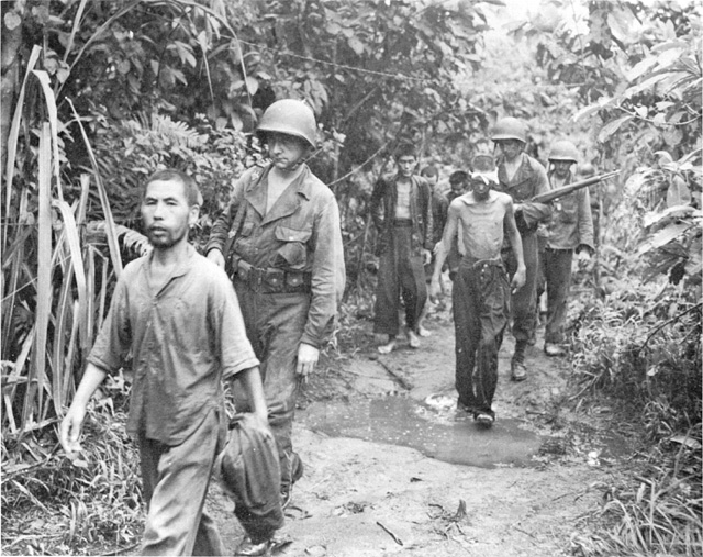 USA-P-Papua-p321 EMACIATED PRISONERS BEING LED TO THE REAR AREA for questioning. milner